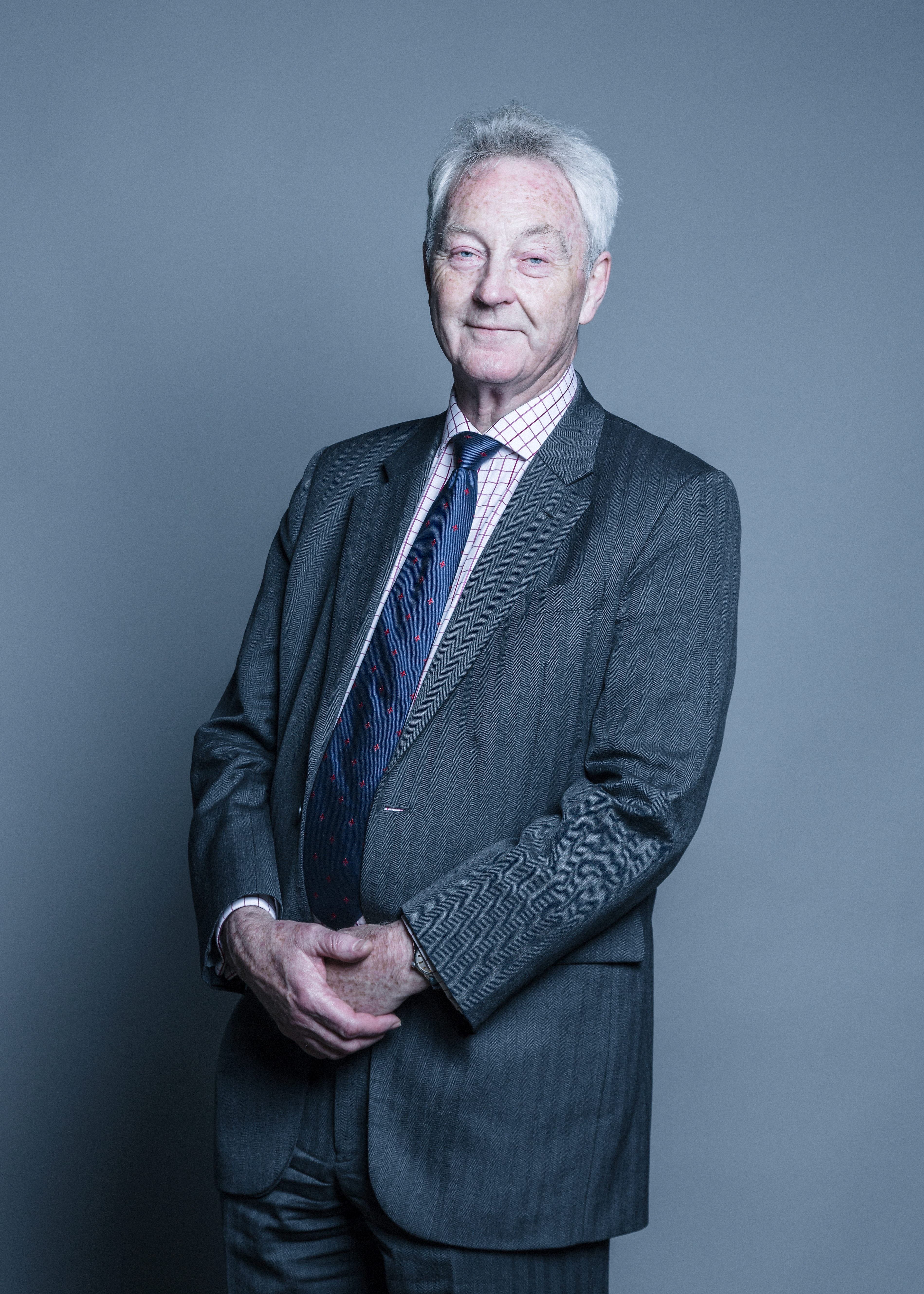 Official portrait of Lord Aberdare